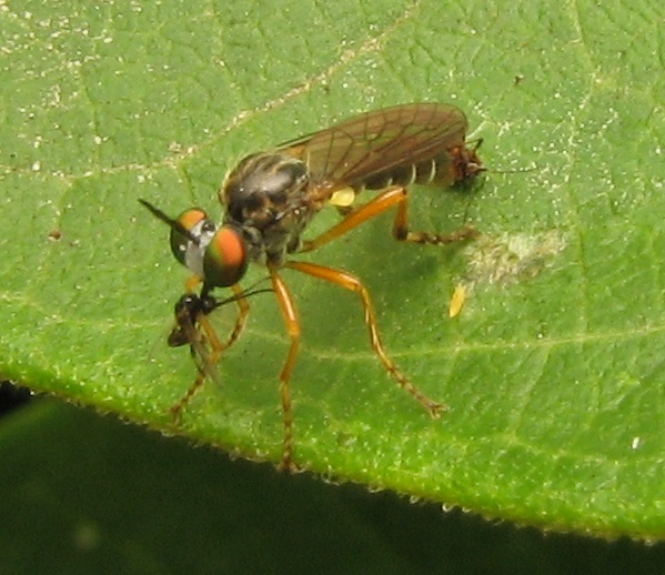 Robber fly, Taracticus octopunctatus, and prey on common milkweed. Schuylkill Nature Center, Philadelphia County, Pennsylvania, USA.